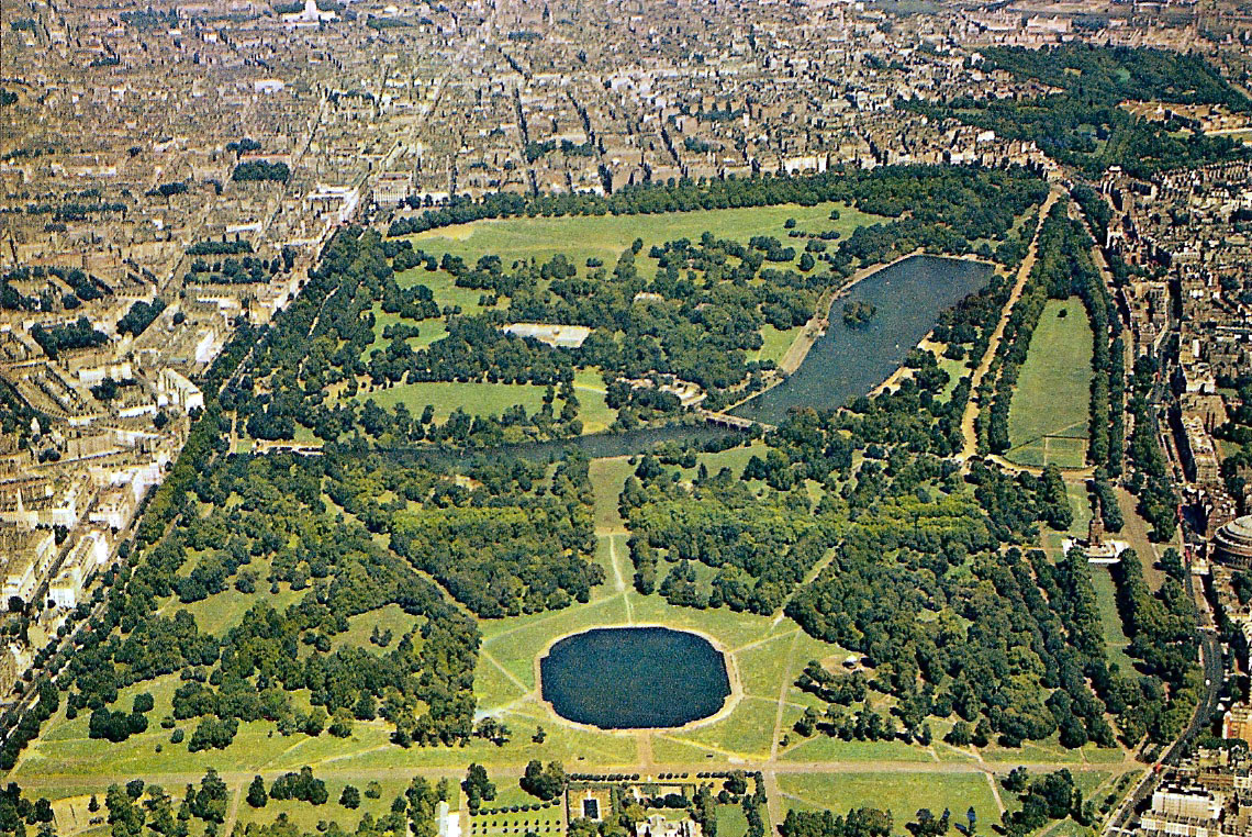 Hyde Park, London